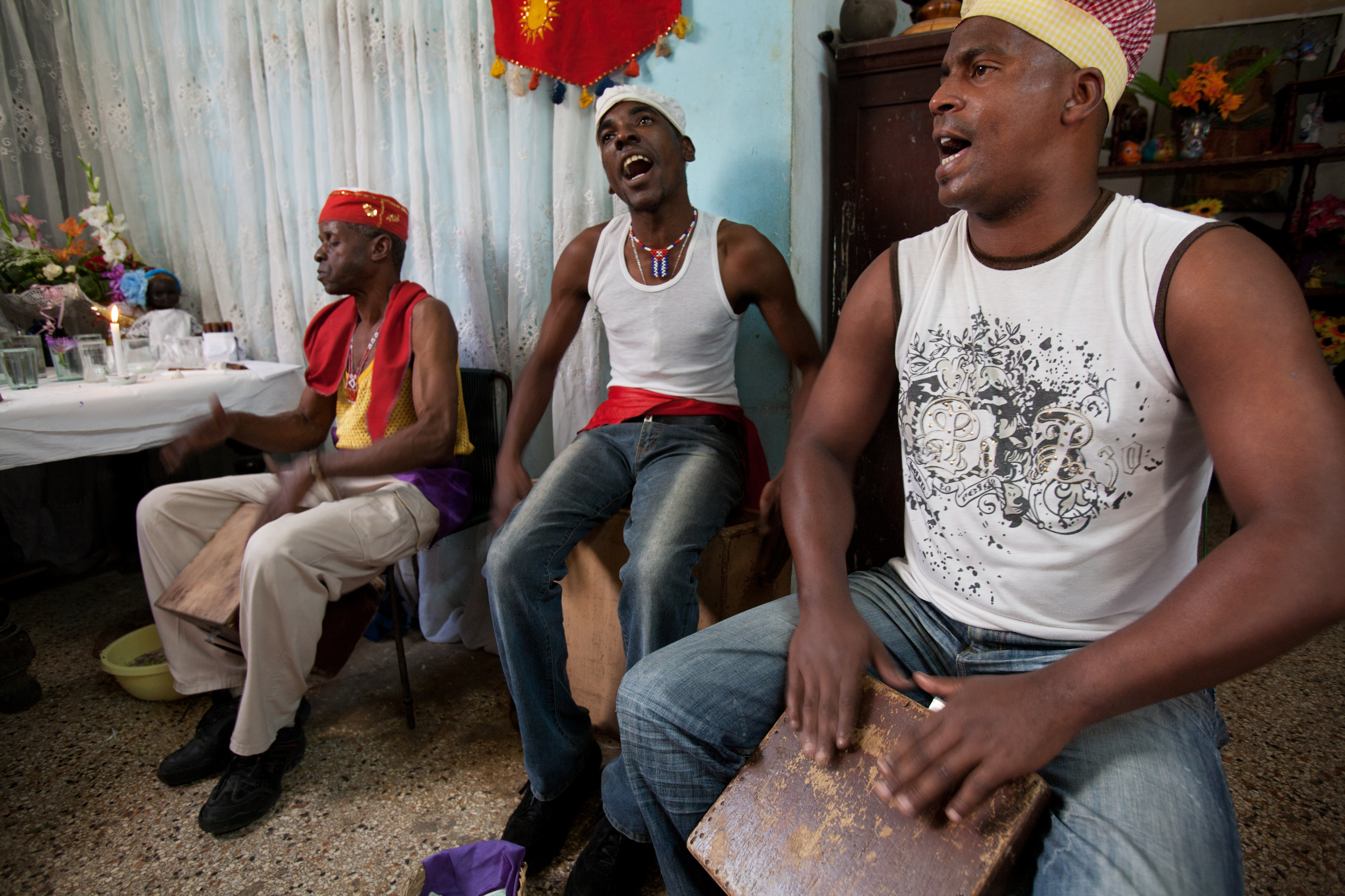 Santería is a system of beliefs that merge the Yoruba religion with Roman Catholic and Native Indian traditions. This ceremony is called "Cajon de Muertos". Havana (La Habana), Cuba